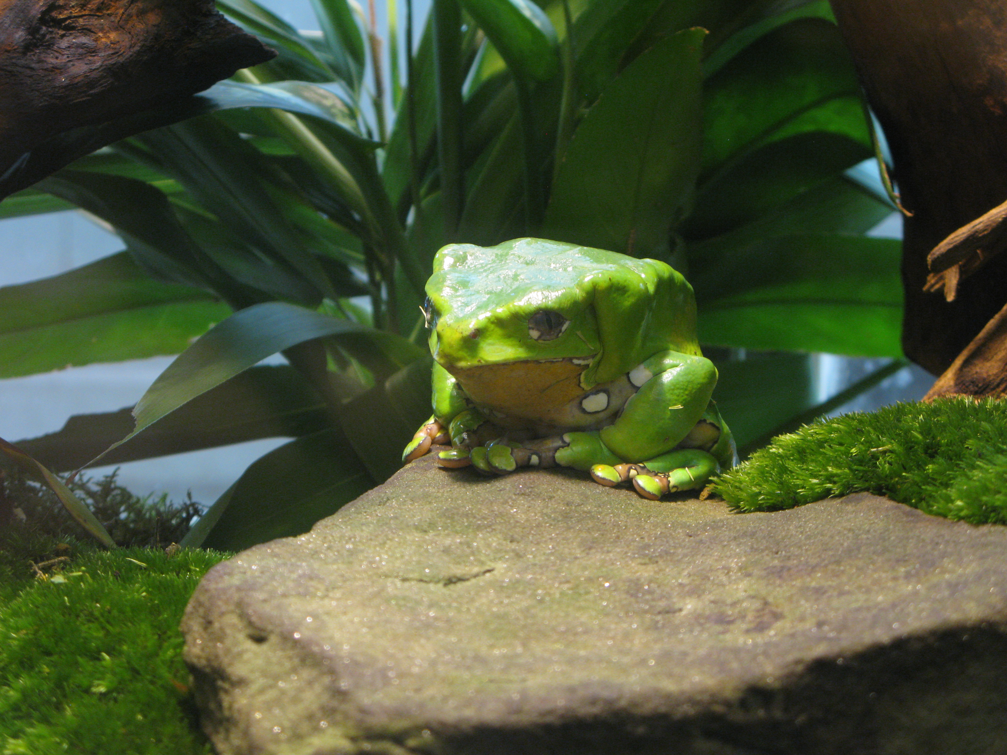 French Guianese bicoloured tree-frog (phyllomedusa bicolor), seated, ménagerie du Jardin des plantes, Paris.